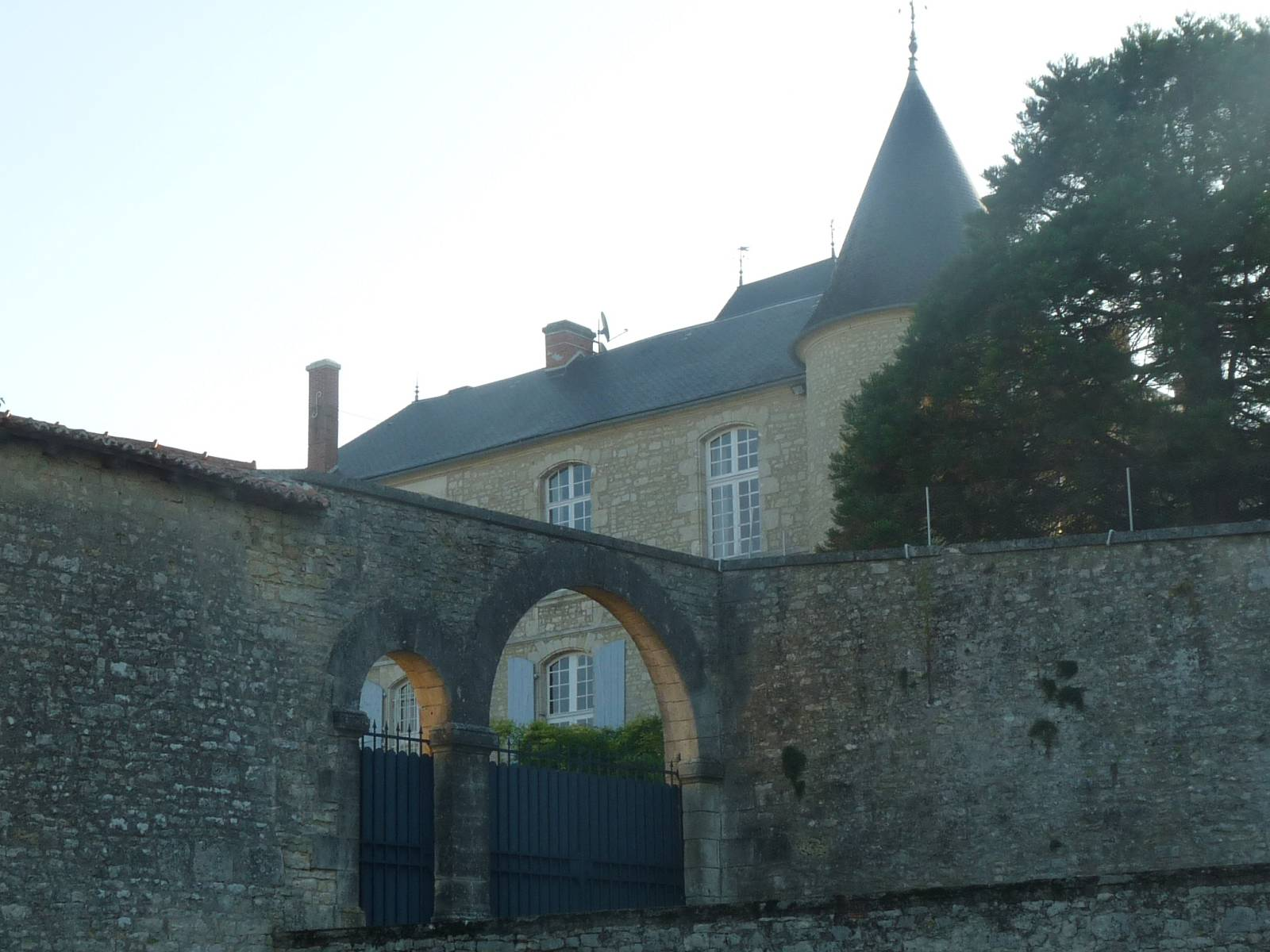 castle of Saint-Mary, Charente, SW France